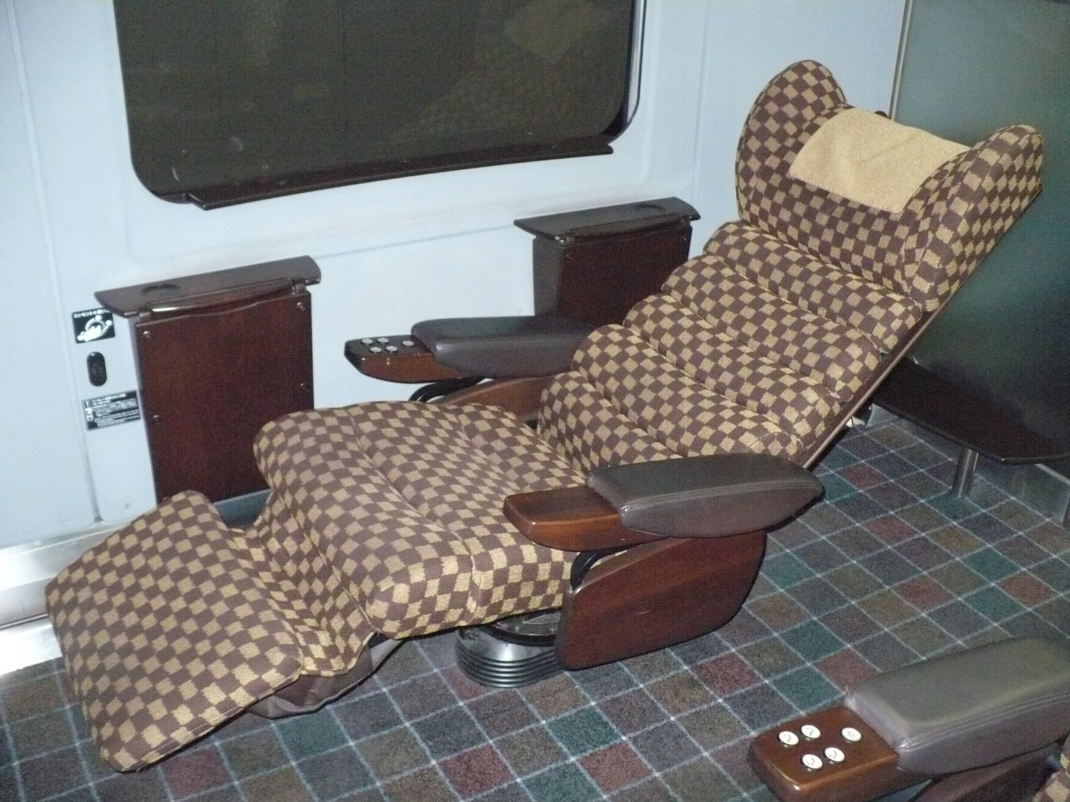 A seat of deluxe green room (first class) of JR Kyushu limited express "Relay Tsubame" train. }